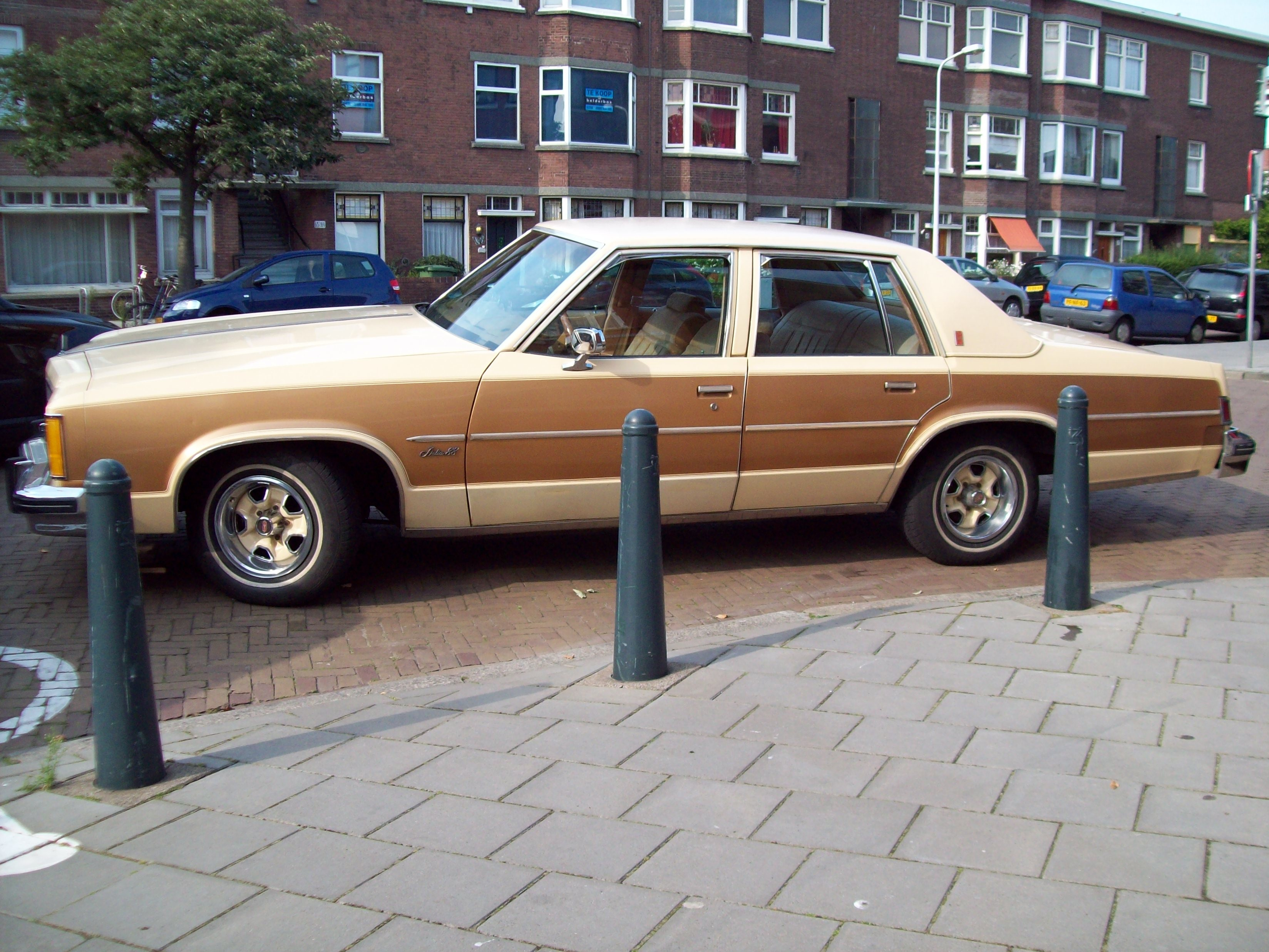 Oldsmobile Delta 88 Royale 1978